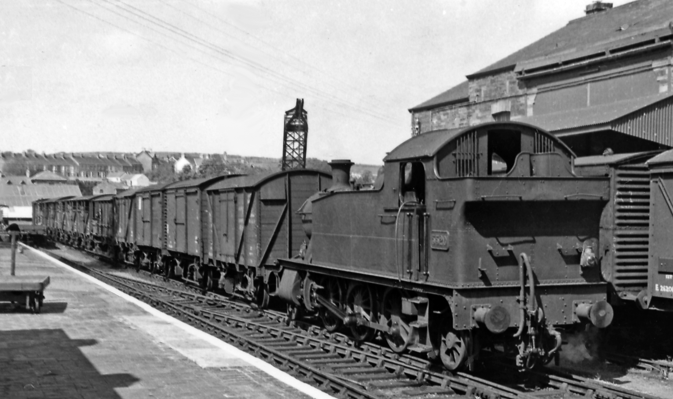 Ex-GW 2-6-2T on goods at Cardigan. View eastward, towards Whitland from the terminal station of the branch (closed to passengers 10/9/62, goods 27/5/63). The locomotive is Collett '4575' class 2-6-2T No. 5520 (built 12/27, withdrawn 9/62).